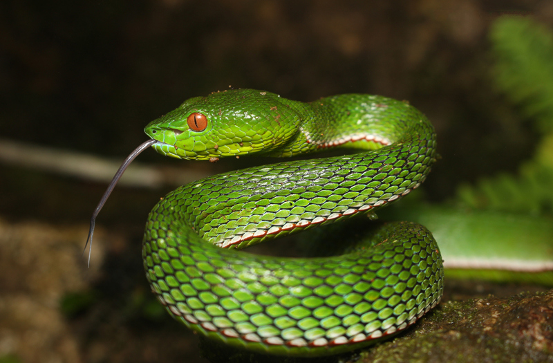 Male Vogels Pit Viper (Trimeresurus vogeli) flicking it's tongue.